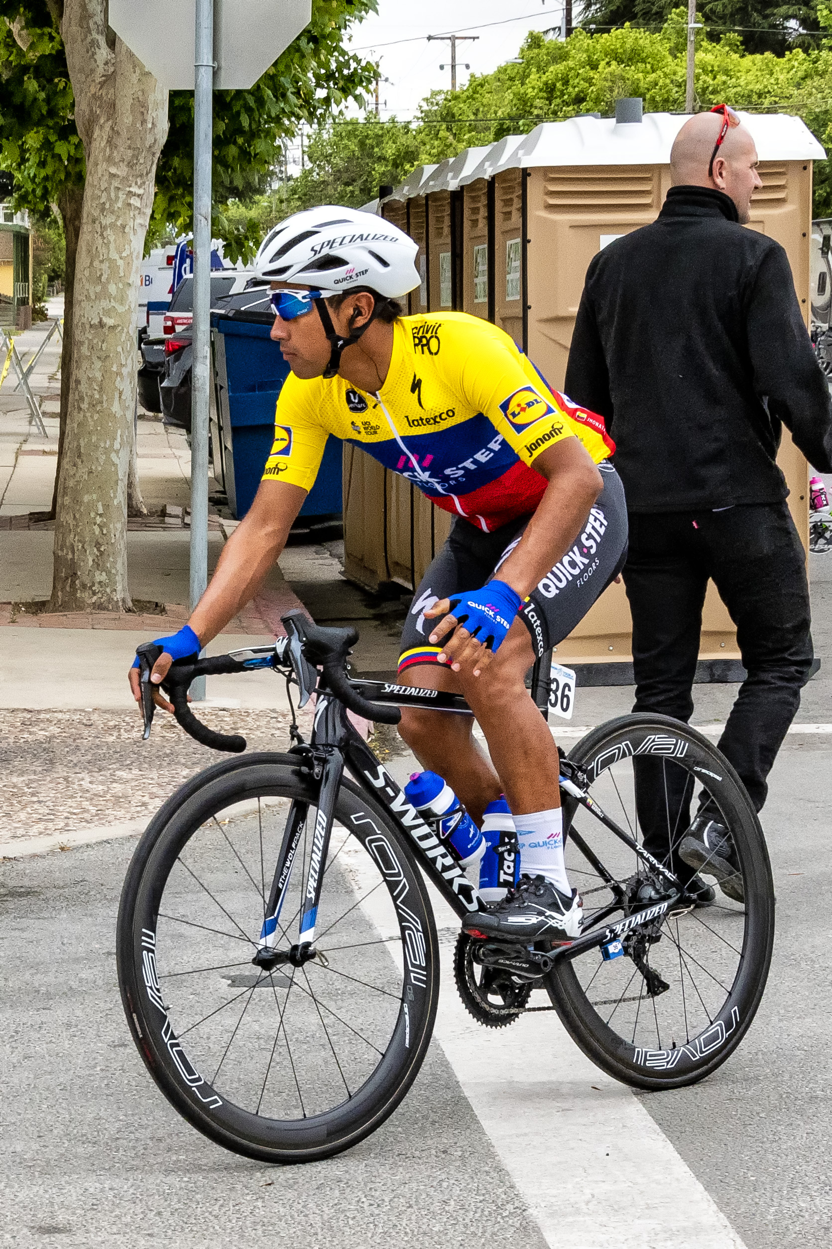 Amgen Tour of California 2018 Stage 3 King City to Laguna Seca UCI World Tour